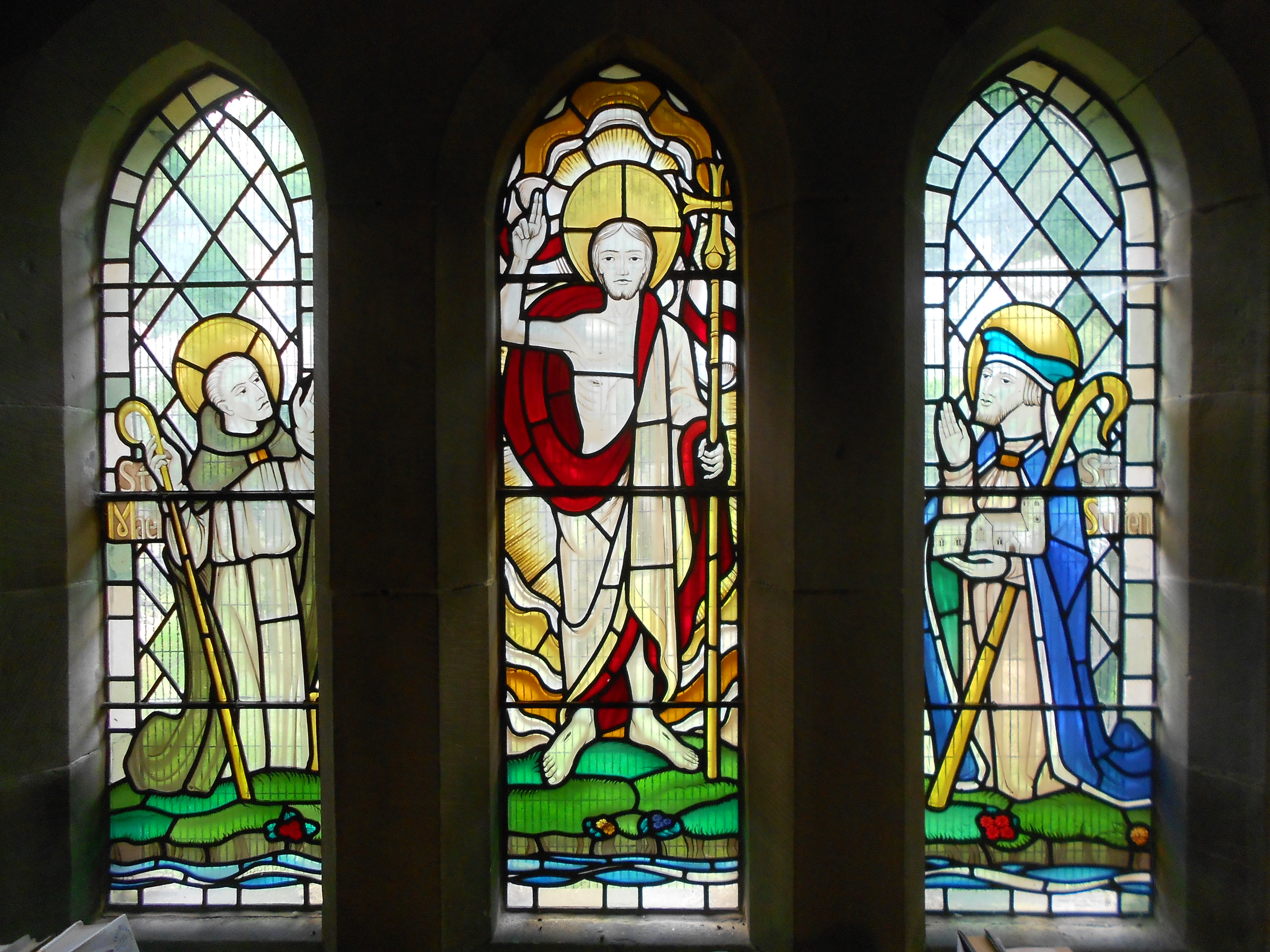 The patron saints of Corwen, Wales, depicted in stained glass: St Mael and St Sulien.